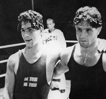 Sten Suvio (left) and Michael Murach at the 1936 Olympics